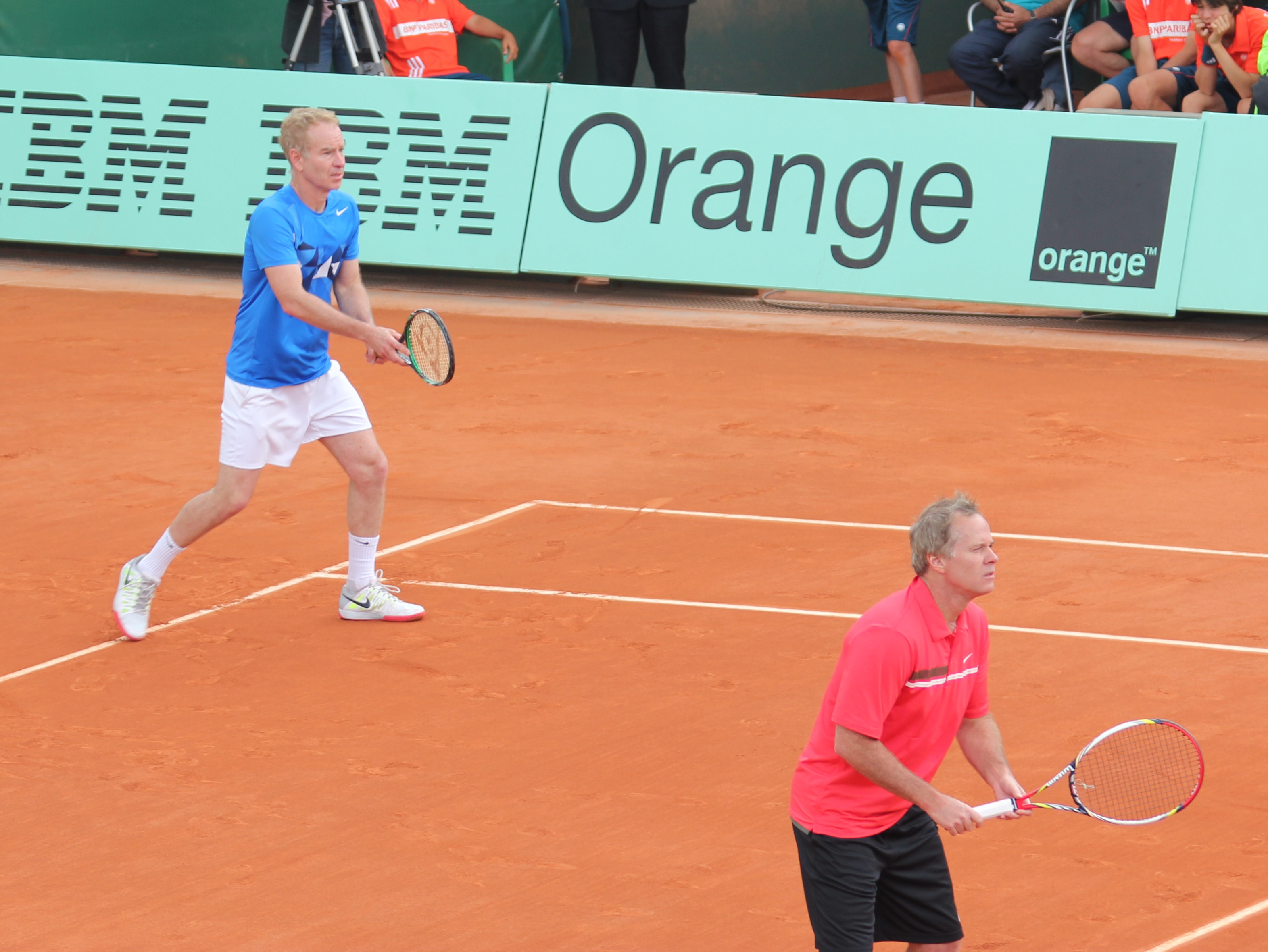 John McEnroe (left) and Patrick McEnroe at the 2012 French Open – Legends Over 45 Doubles